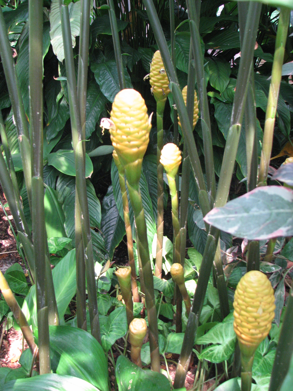 Zingiber spectabile, at North Carolina Zoo